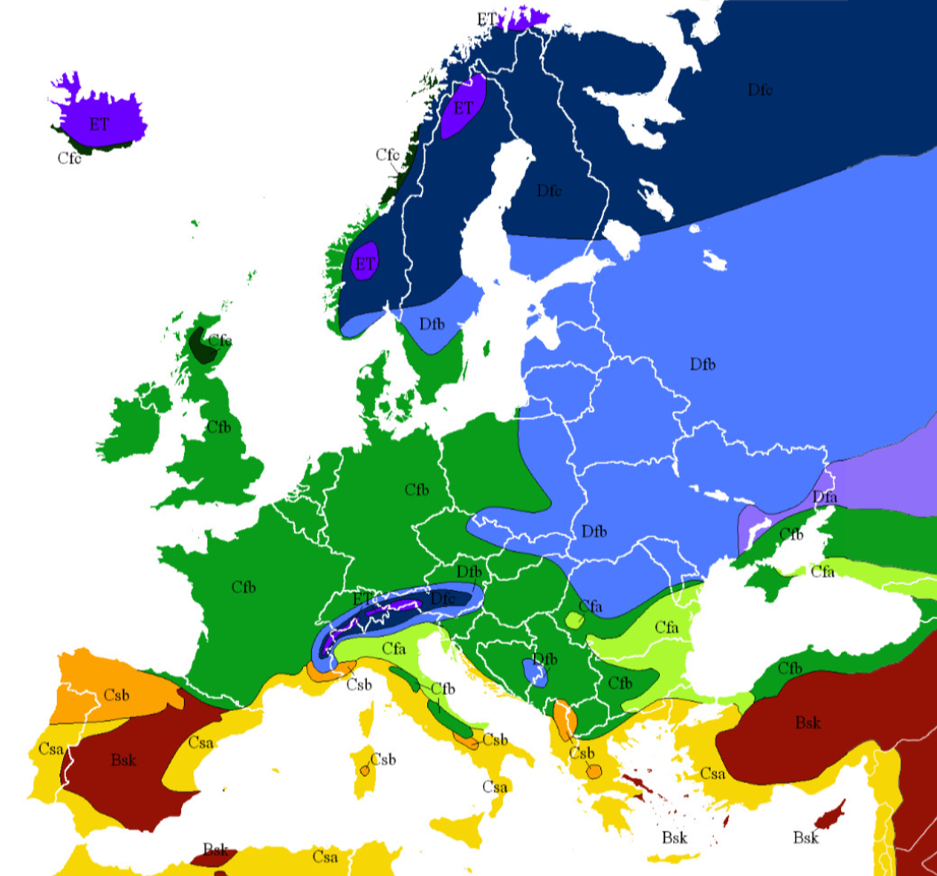 Simplified map of the climates of Europe according to the Köppen-Geiger climates classification